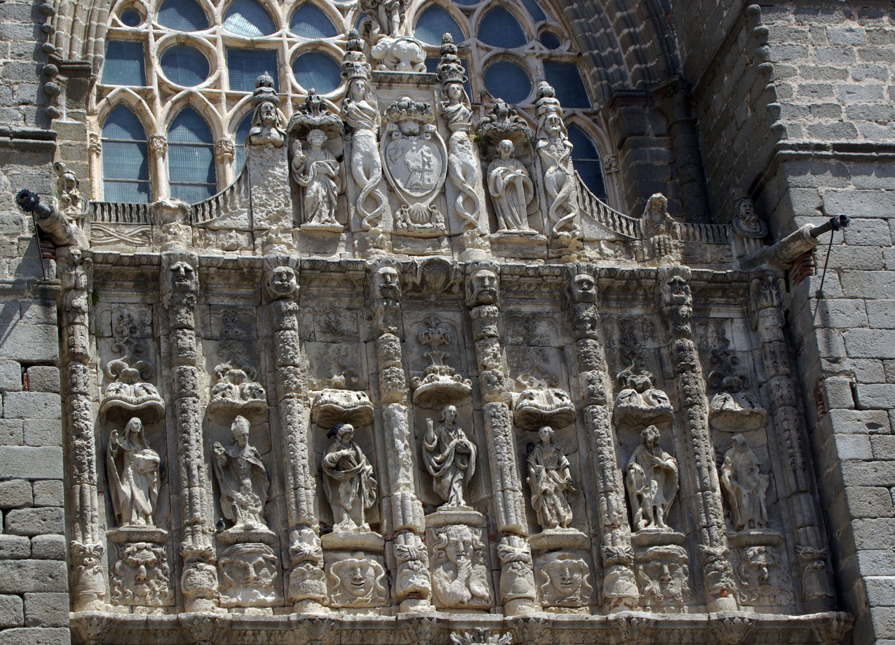 Detail of Cathedral of Ávila, Ávila (Spain). Front.